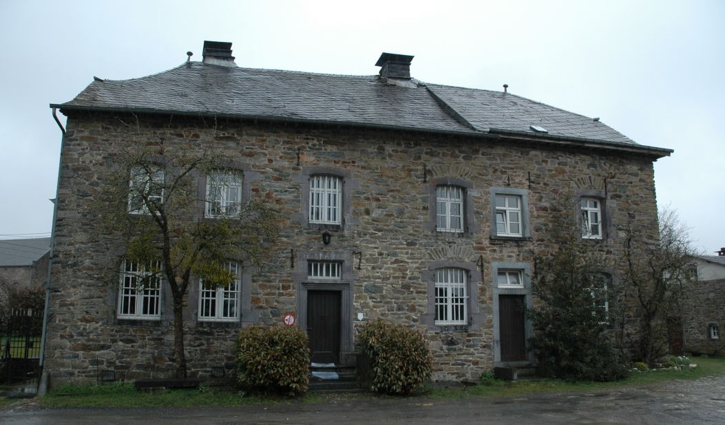 Commanster Castle